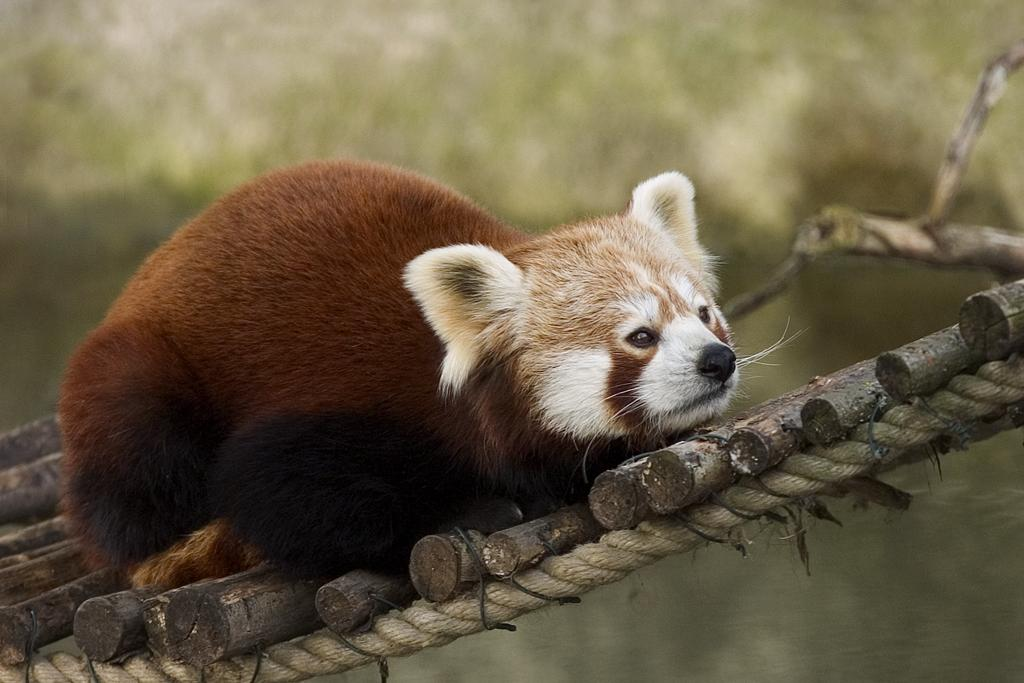 Red panda (Ailurus fulgens) in Munich Zoo